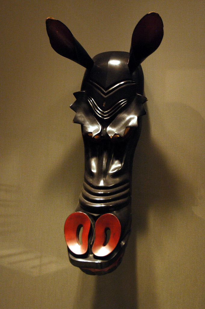 Bamen (chanfron), Japanese (samurai) armor for the head of a horse.